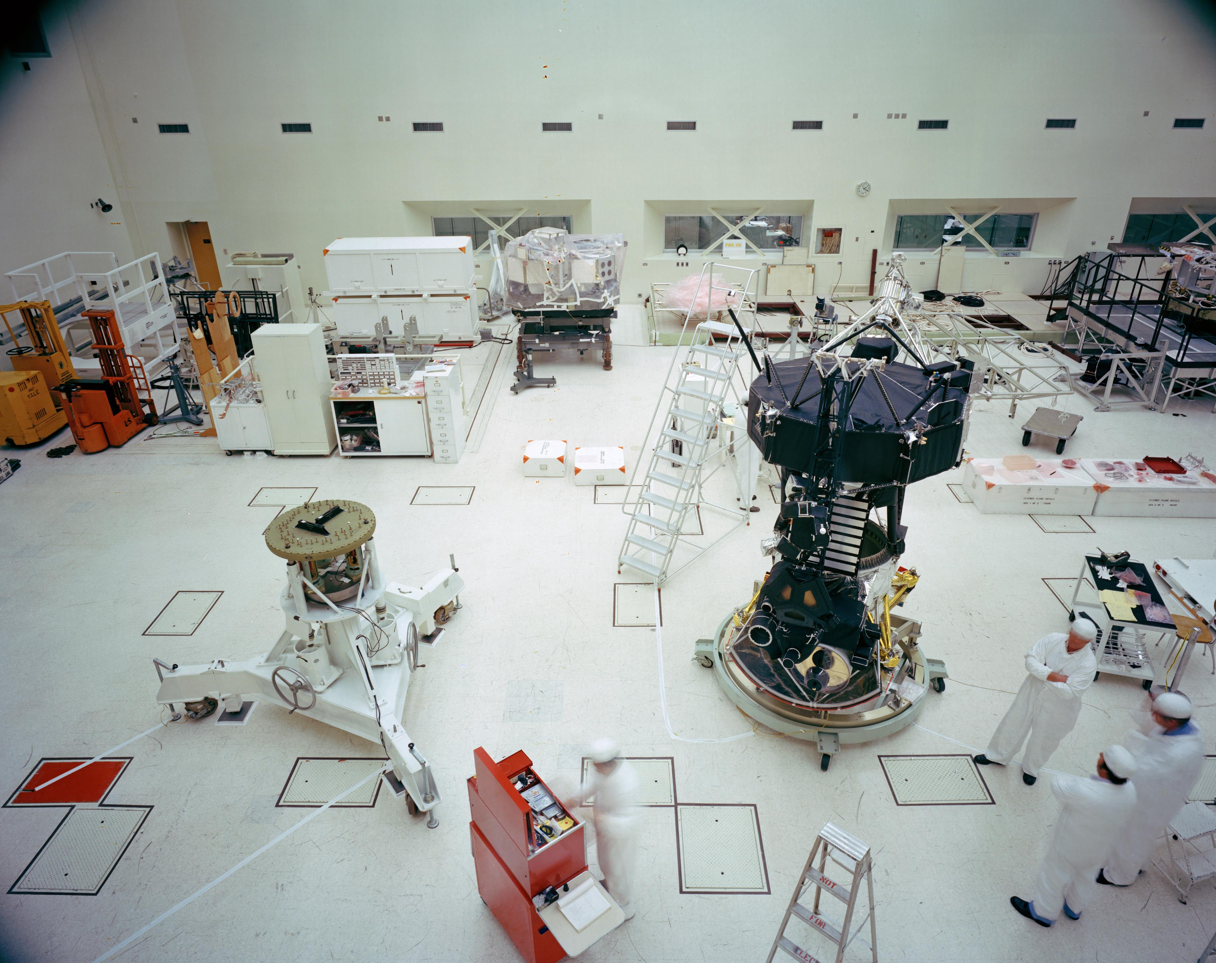 NASA's Voyager Proof Test Model and Cleanroom